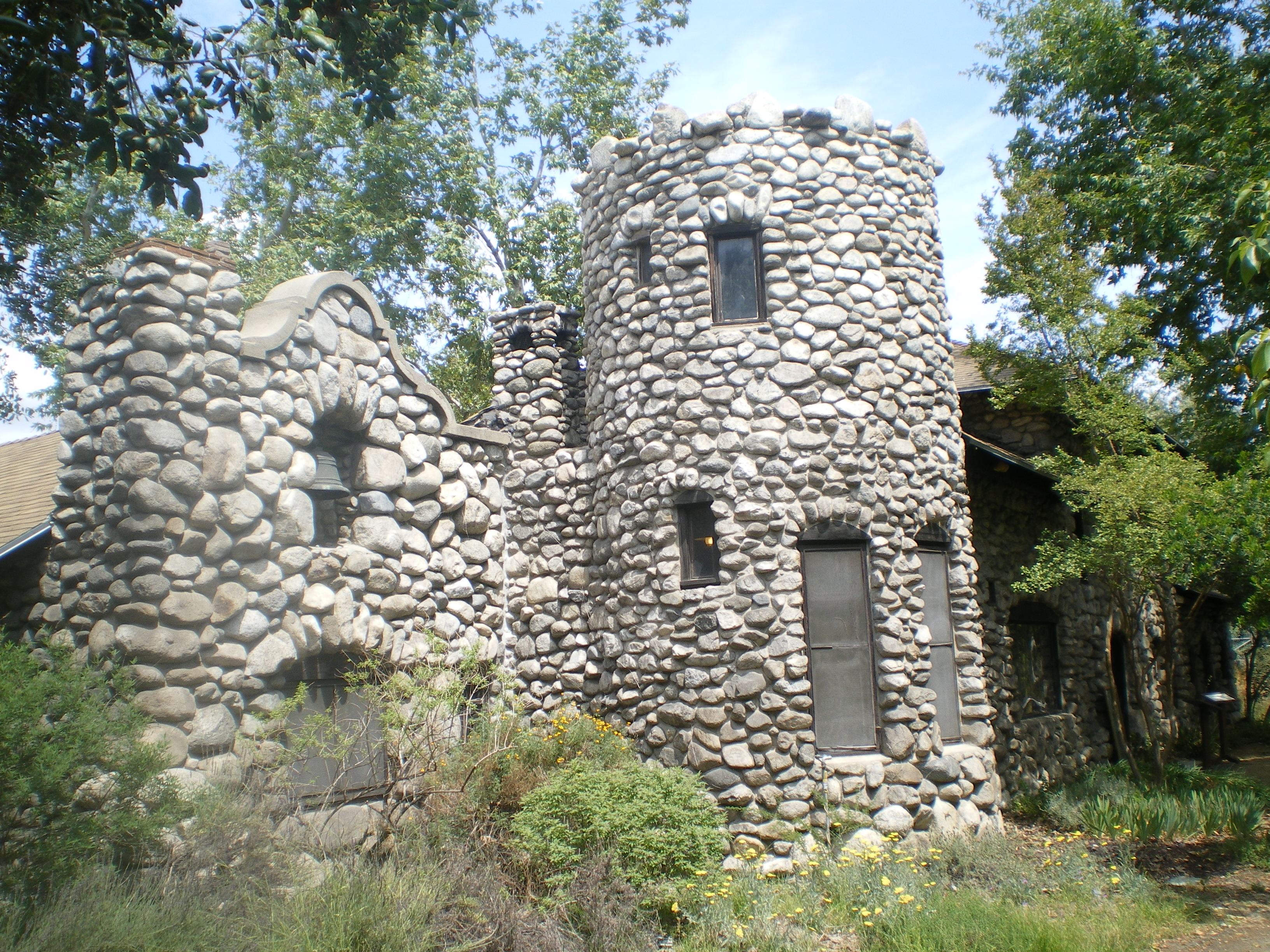 Lummis House, 200 E. Ave. 43, Los Angeles, California